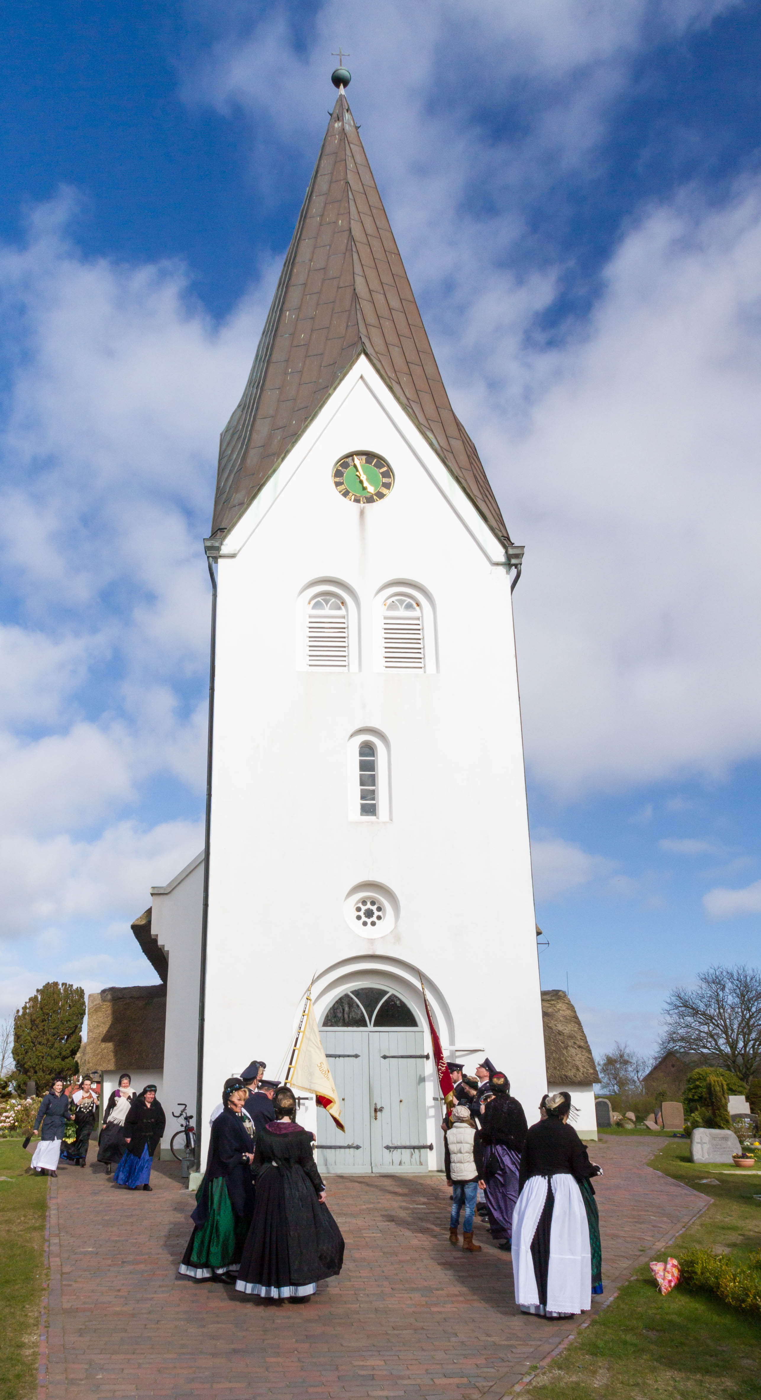 The making of this document was supported by the Community-Budget of Wikimedia Germany. Der Amrumer Trachetnverein vor der St. Clemens (Nebel)